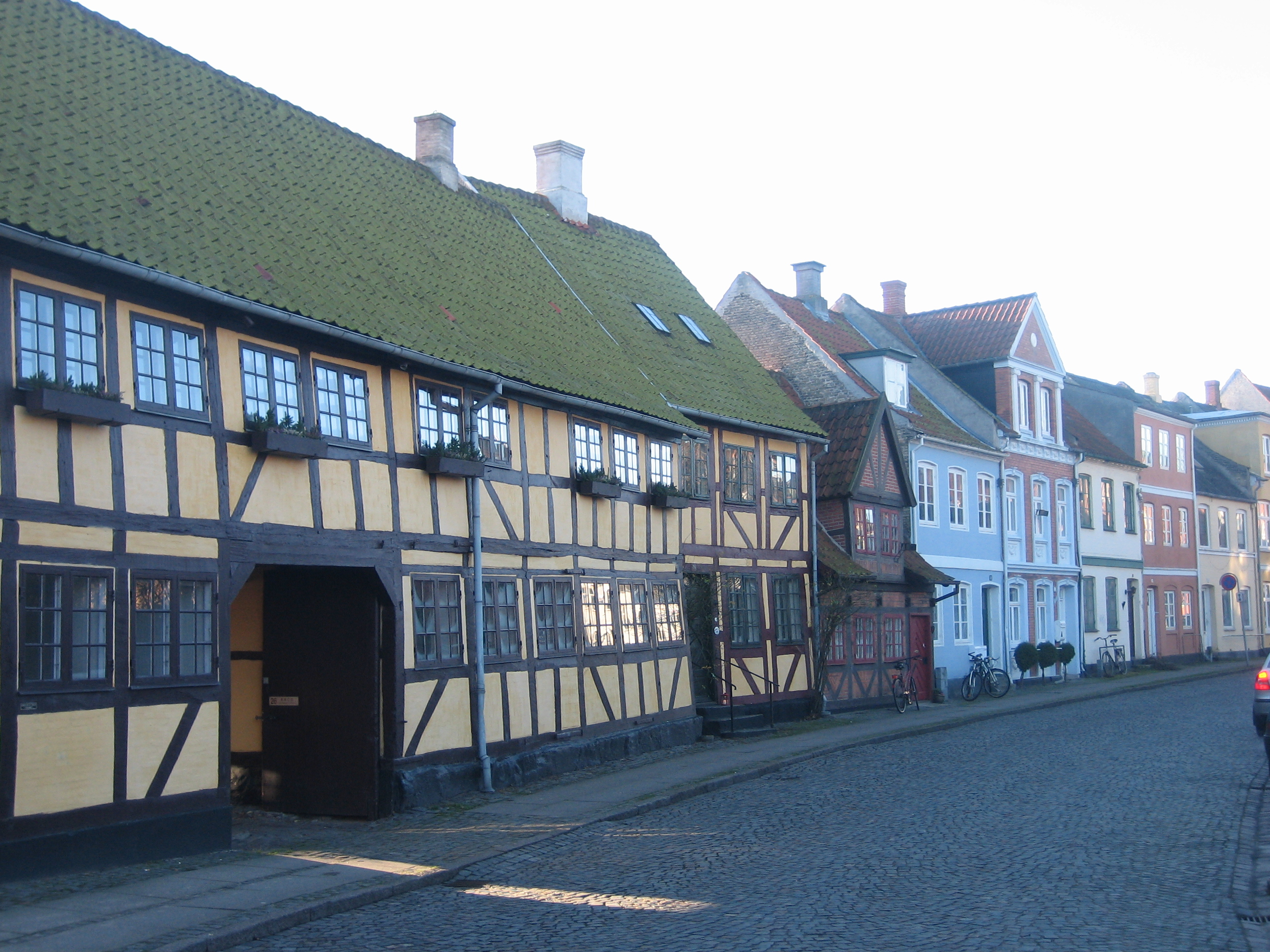 Old street in Nyborg, Denmark